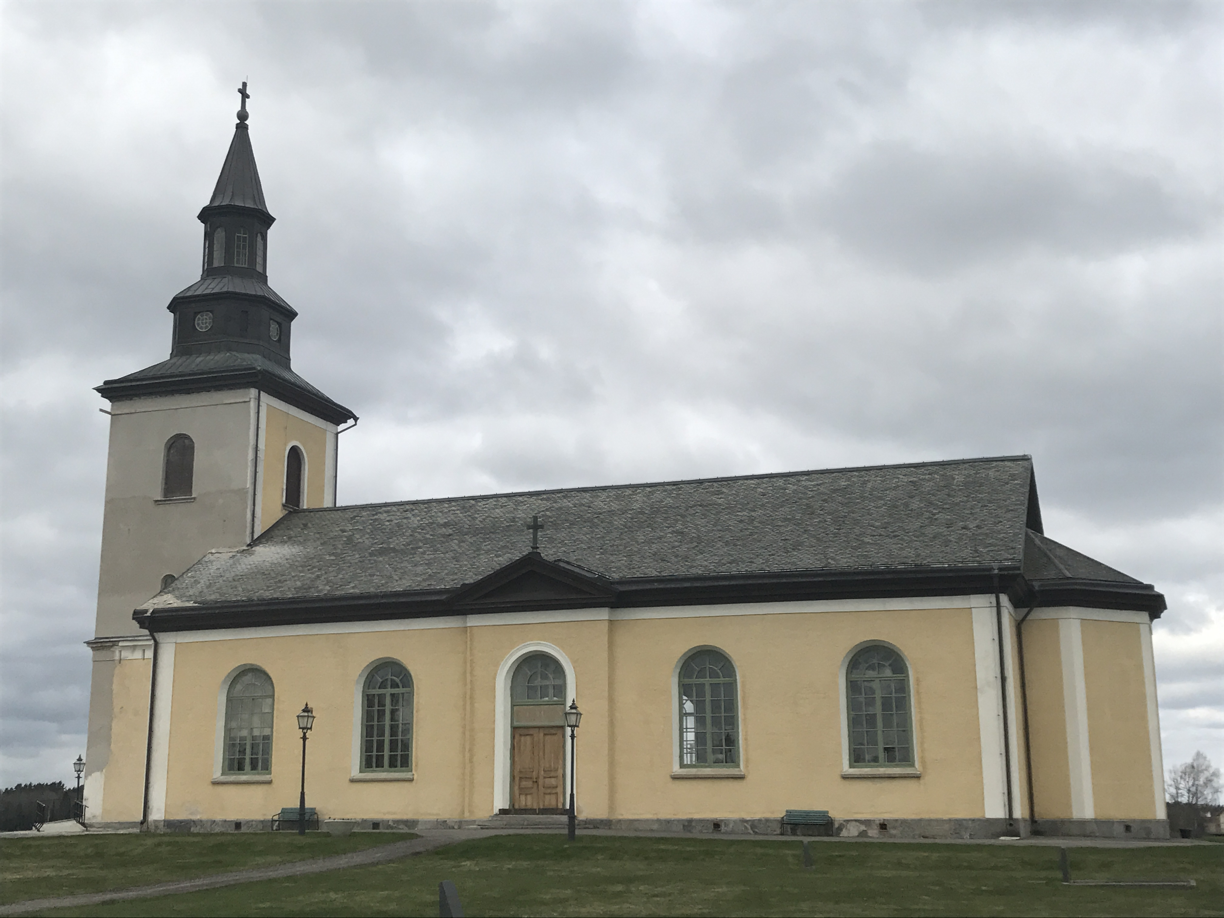 Church Grästorp